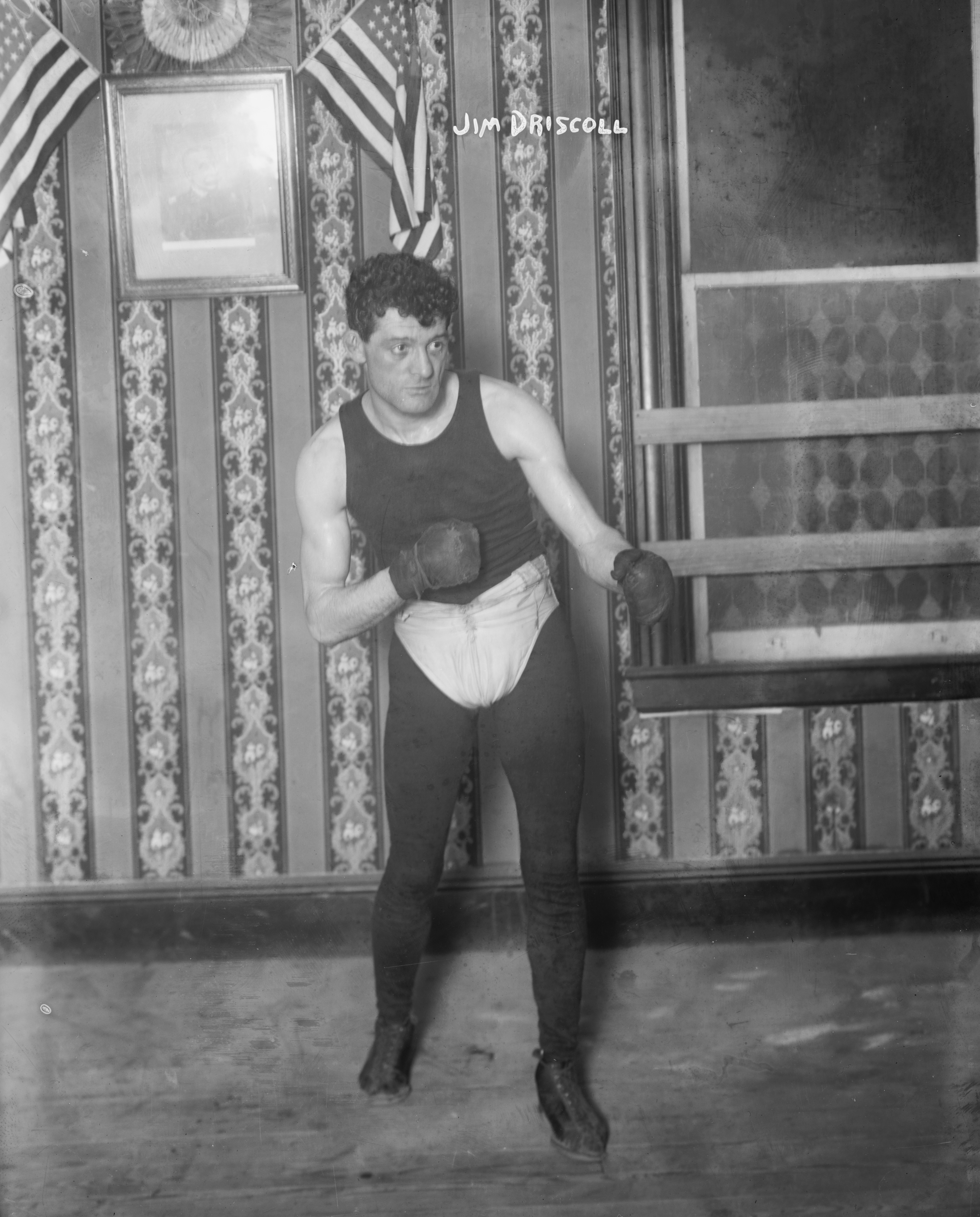 Jim Driscoll, a Welsh boxer